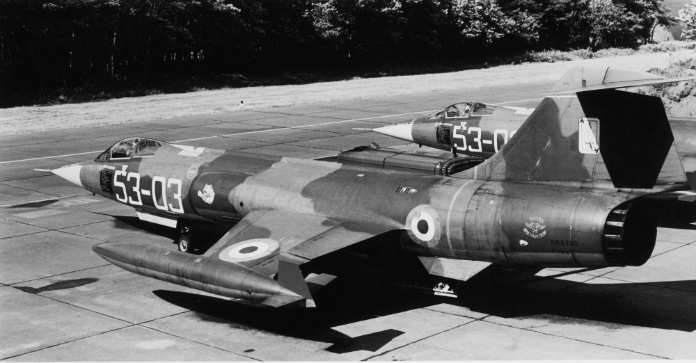 PictionID:42254147 - Title:Fiat F-104S cn 1005 M.M.6705 53-03 21 Grupo AMI (via RJF) - Catalog:17_000041 - Filename:17_000041.tif - ---------Image from the René Francillon Photo Archive. Having had his interest in aviation sparked by being at the receiving end of B-24s bombing occupied France when he was 7-yr old, René Francillon turned aviation into both his vocation and avocation. Most of his professional career was in the United States, working for major aircraft manufacturers and airport planning/design companies. All along, he kept developing a second career as an aviation historian, an activity that led him to author more than 50 books and 400 articles published in the United States, the United Kingdom, France, and elsewhere. Far from “hanging on his spurs,” he plans to remain active as an author well into his eighties.-------PLEASE TAG this image with any information you know about it, so that we can permanently store this data with the original image file in our Digital Asset Management System.--------------SOURCE INSTITUTION: San Diego Air and Space Museum Archive